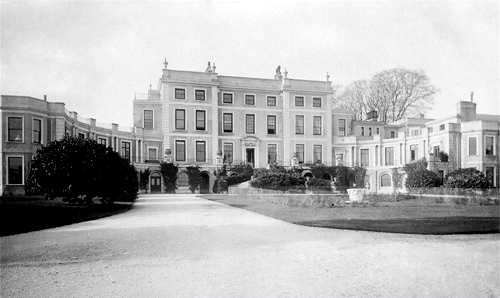 Haldon House in the parish of Kenn, near Exeter, Devon. Demolished 1925/6.